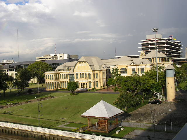 Bang Khunphrom Palace, Bangkok, Thailand